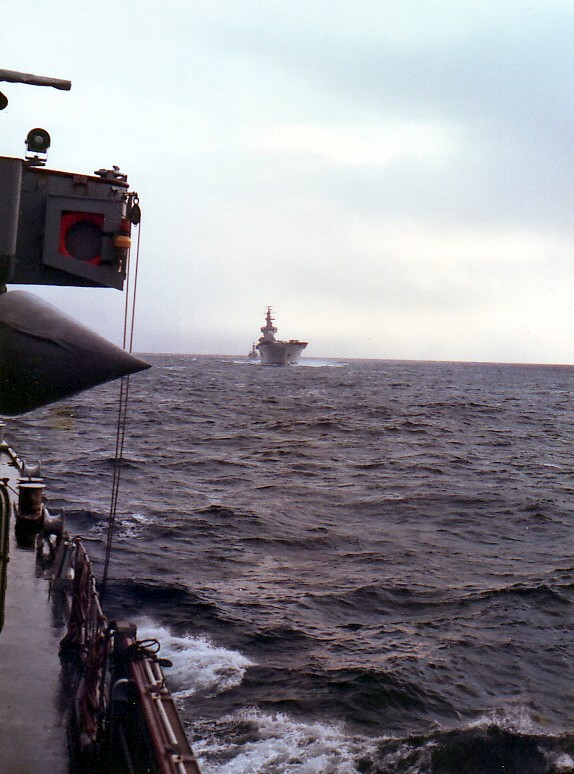 View of HMS Invincible from HMS Cardiff in the TEZ, 1982